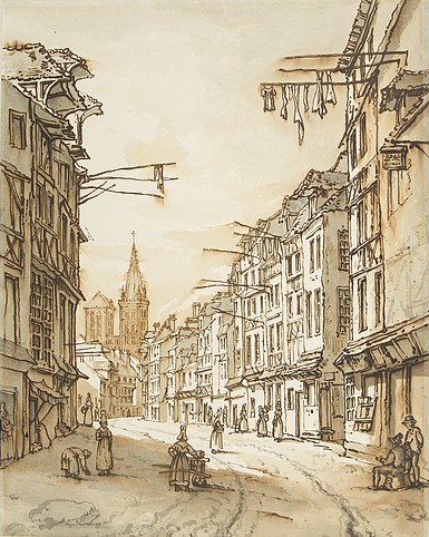 Lisieux - Drawing Brown ink, brown and gray wash over graphite on cream paper - 42.3 x 33.5 cm